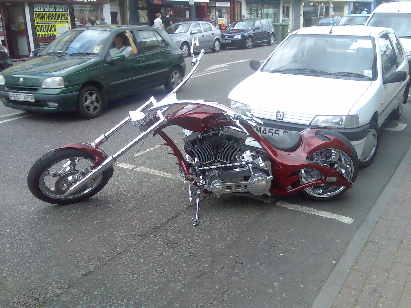 A custom motorcycle parked on the street in Kettering, United Kingdom.